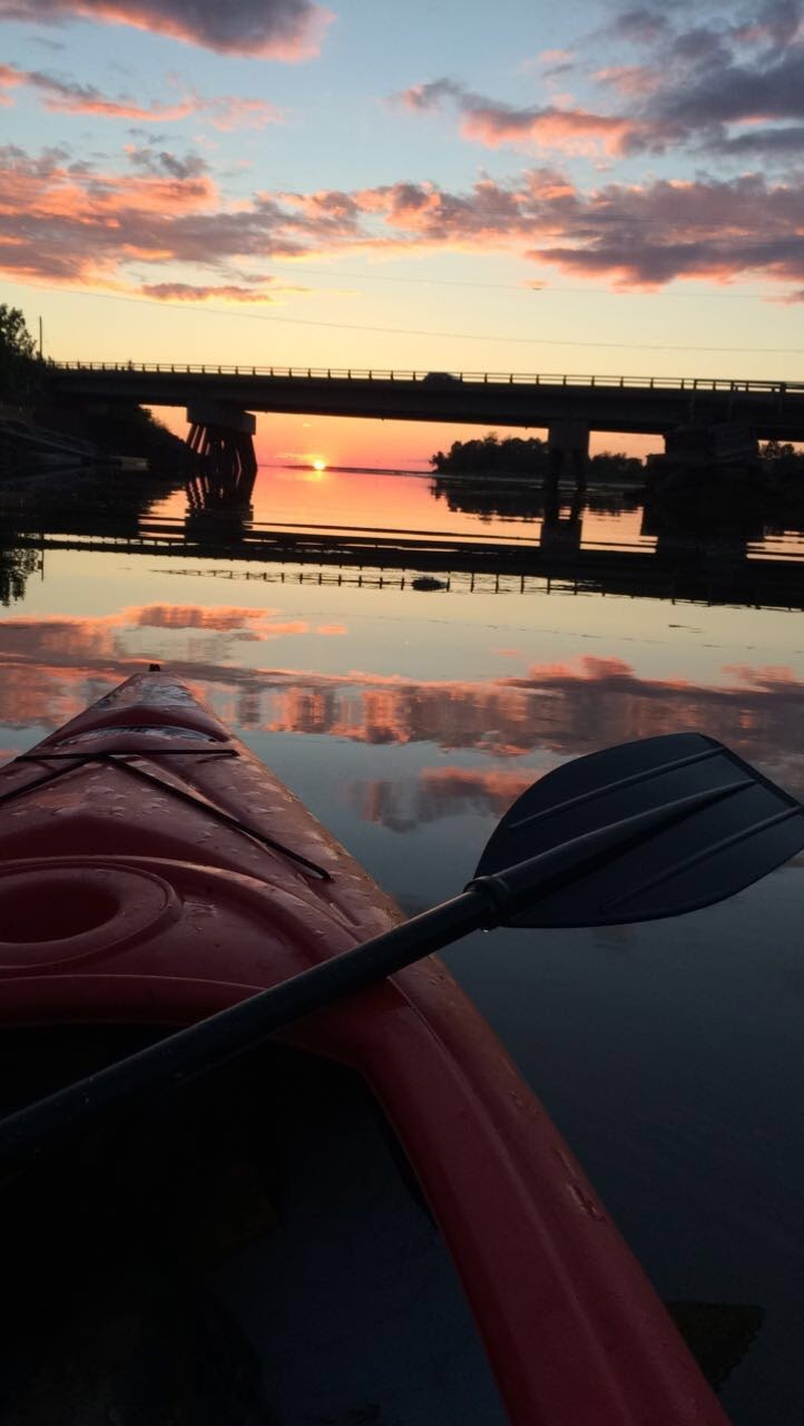 Early August sunset in River John